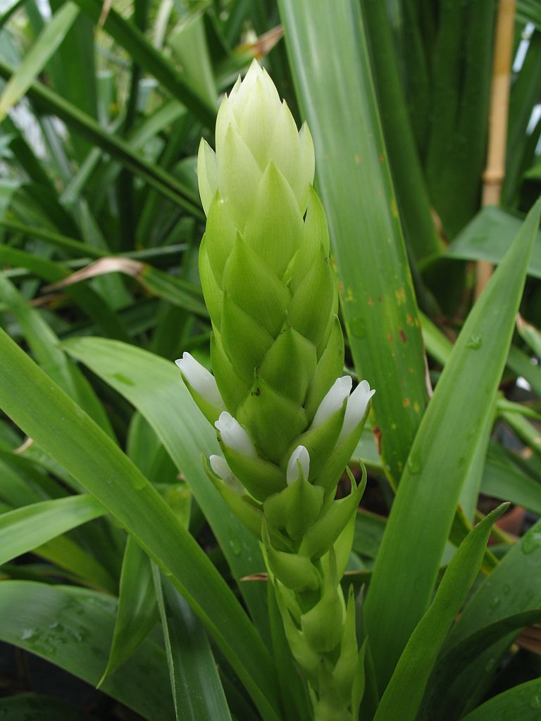 Guzmania monostachia var. alba, in cultivation at the Botanical Garden of Heidelberg, Germany.